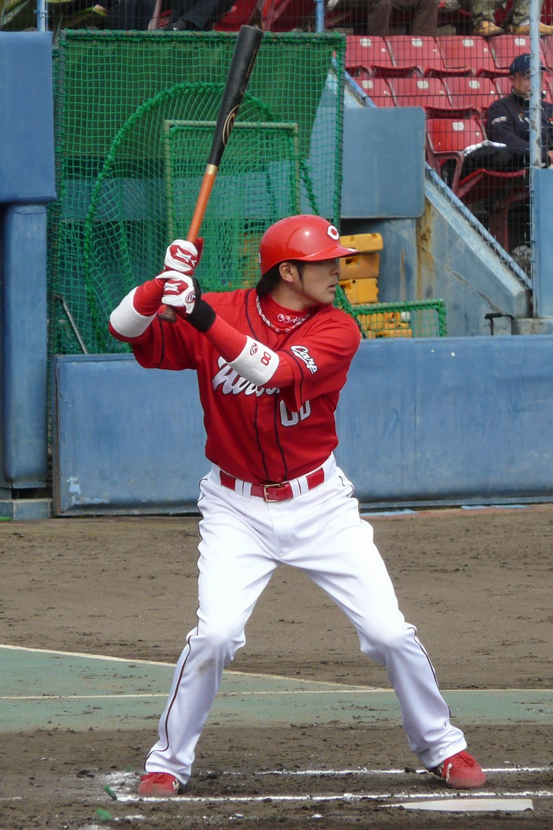 Akira Tanaka